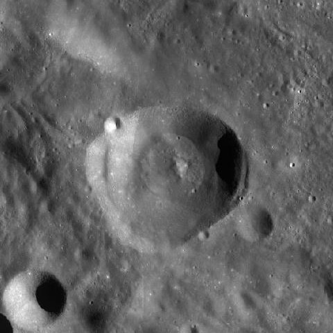 Kearons crater, on the far side of the moon. Mosaic of LRO WAC images.